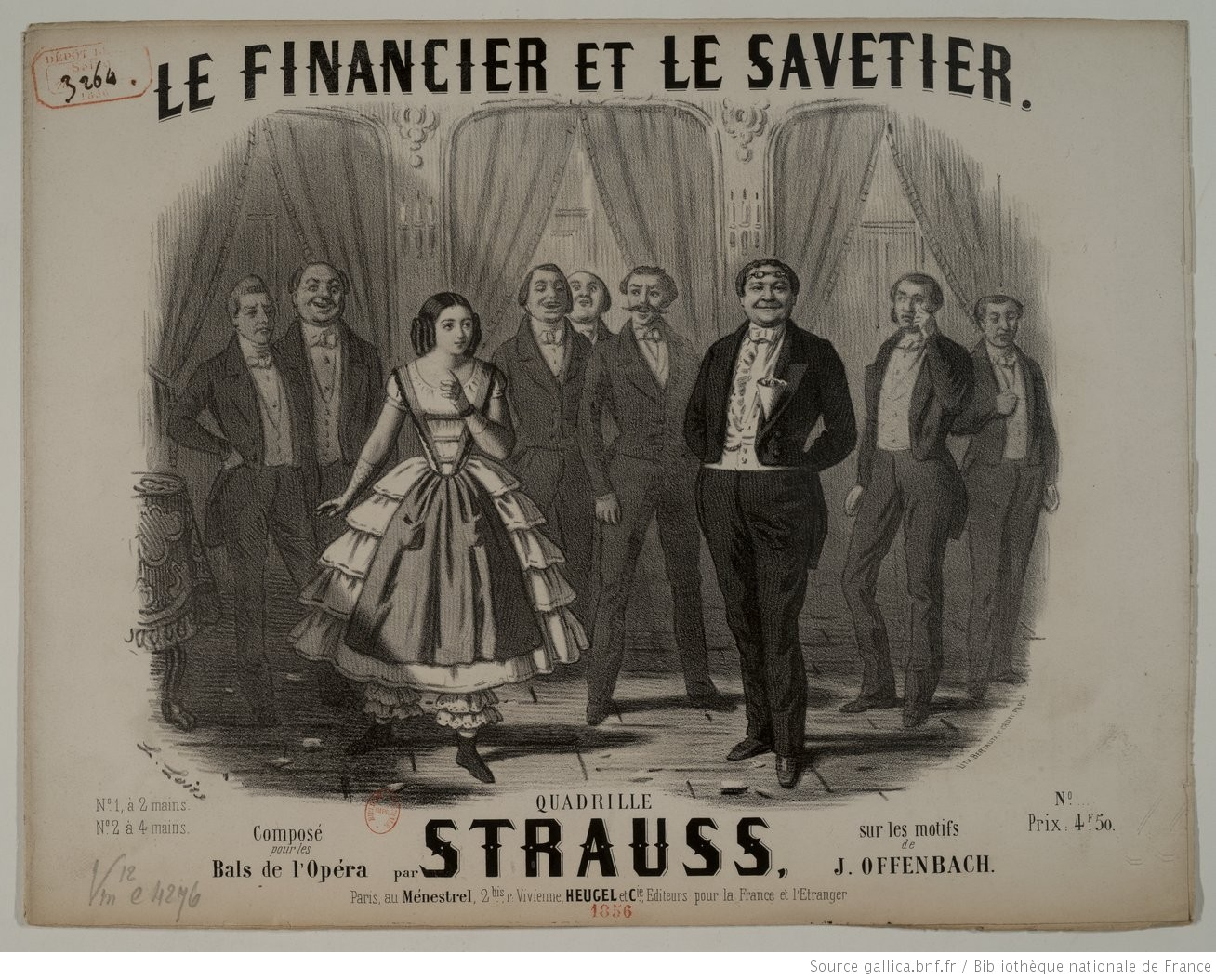 Quadrille on themes from Jacques Offenbach's operetta 'Le financier et le savetier', arranged by Isaas Strauss, title page with engraving